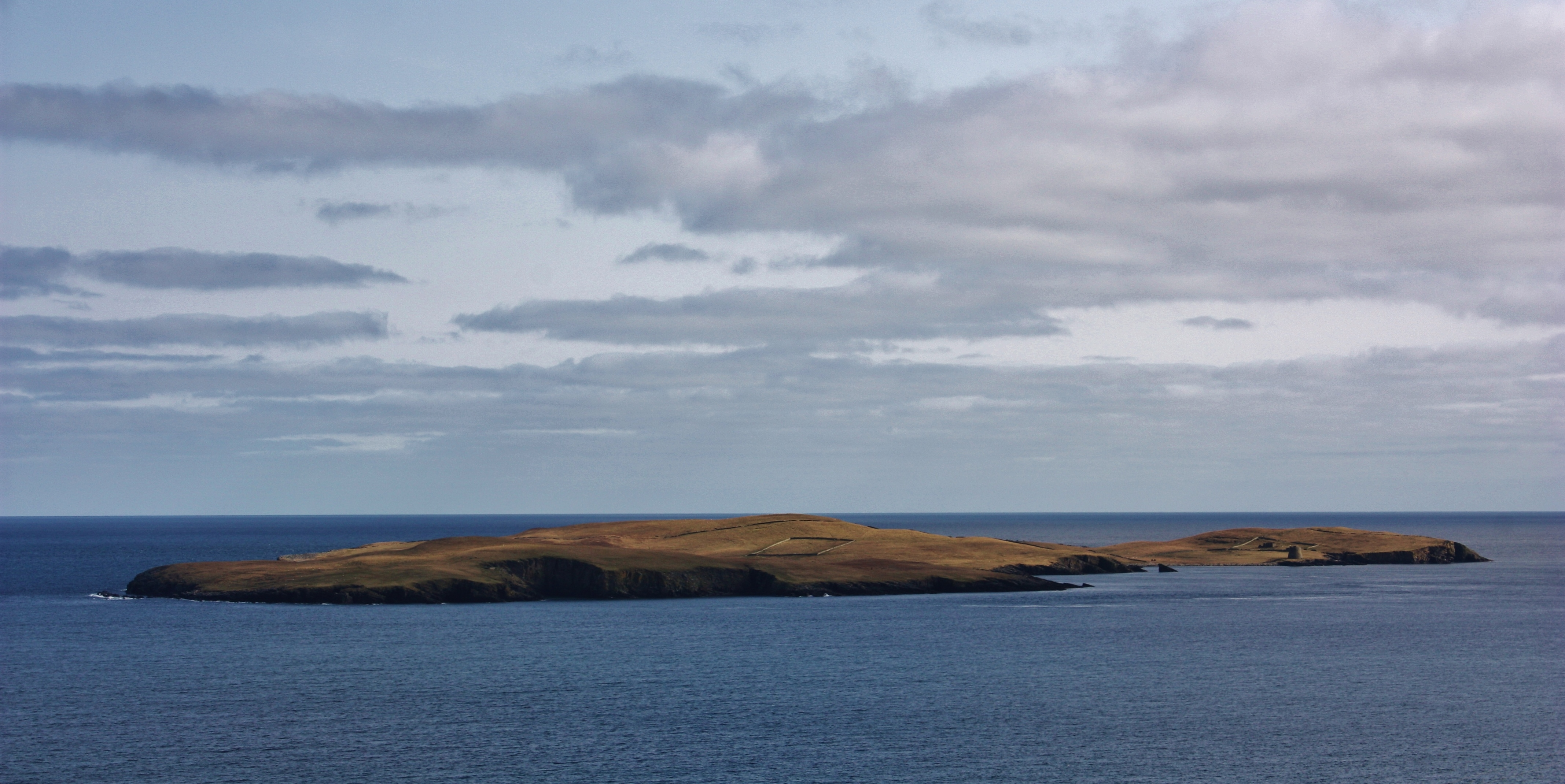 Off the east side of Shetland's south mainland showing the famous Mousa Broch.